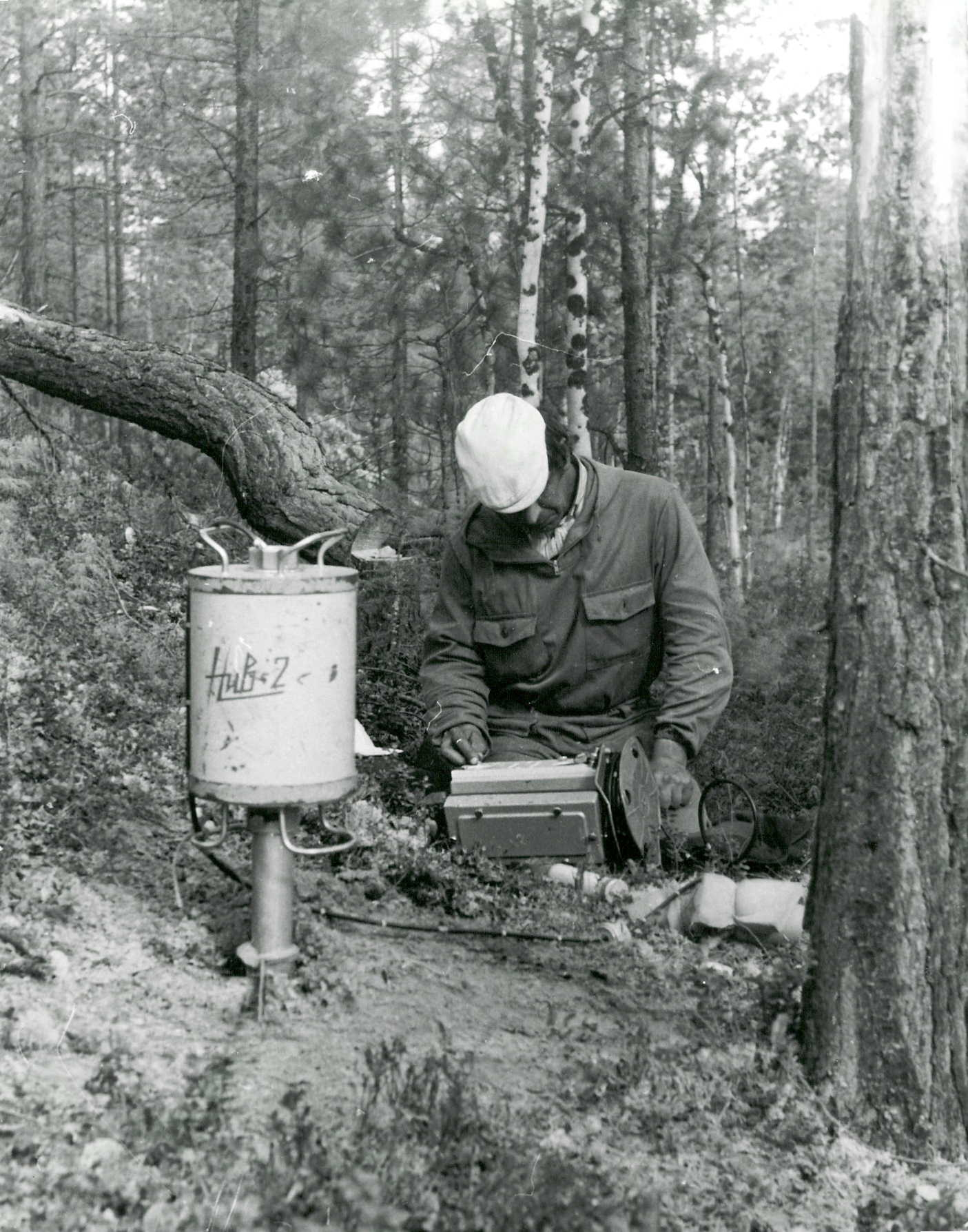 Investigation of the physical properties of soils with radioisotope methods. Urengoi – Nadym - Sovetsky Road, 1982